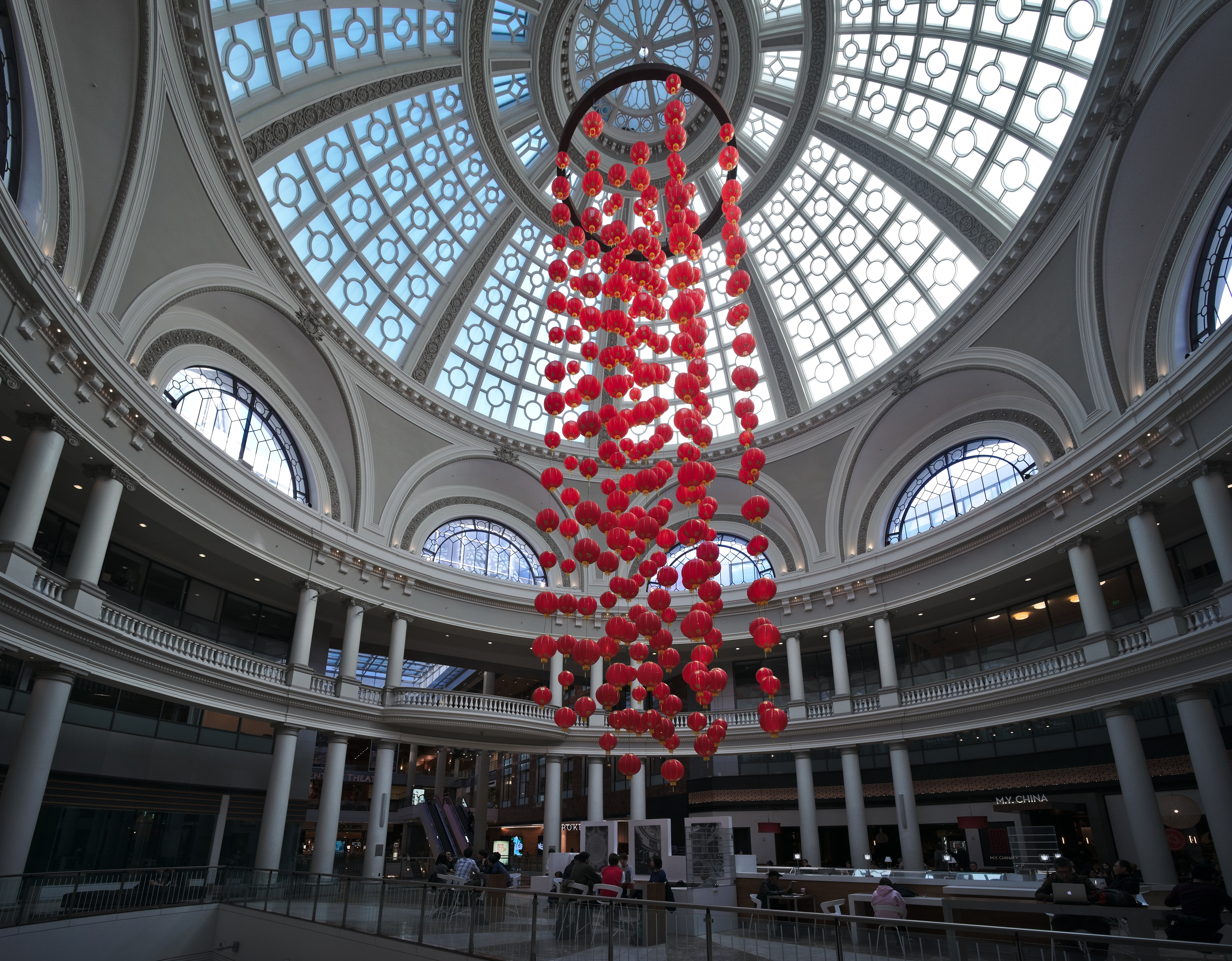 Westfield San Francisco Centre in San Francisco.